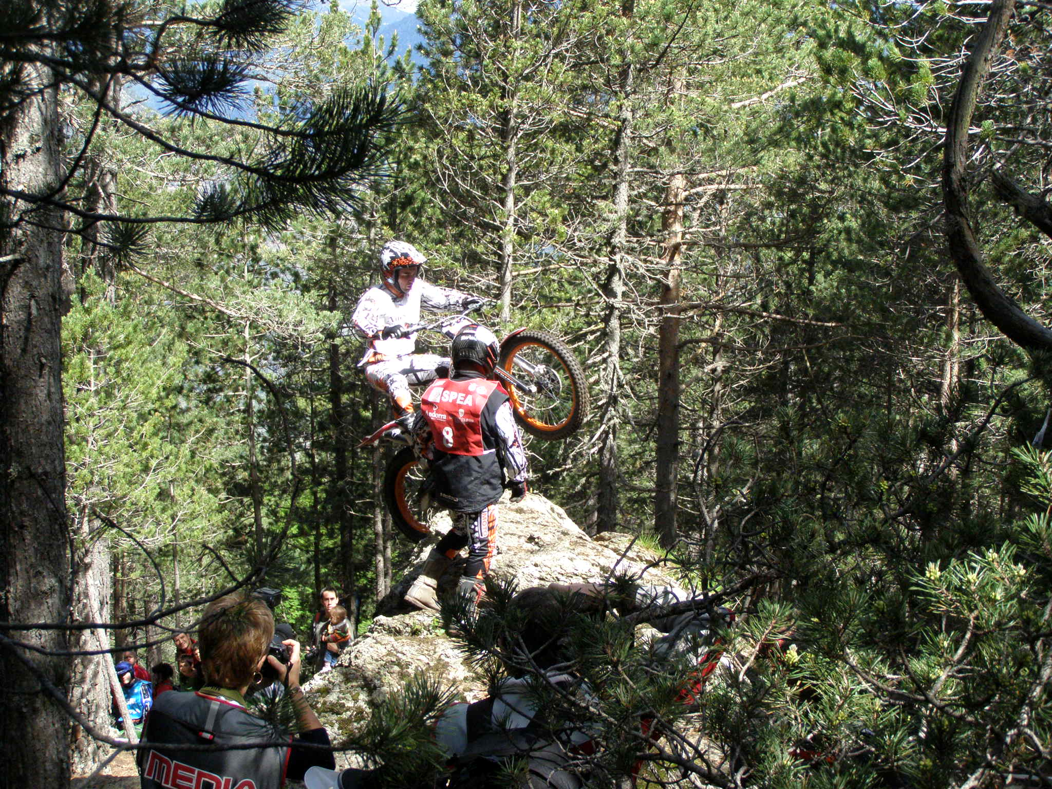 Alfredo Gómez (Montesa, Spain) in La Rabassa (Sant Julià de Lòria, Andorra), during the 2010 UEM Trial European Championship